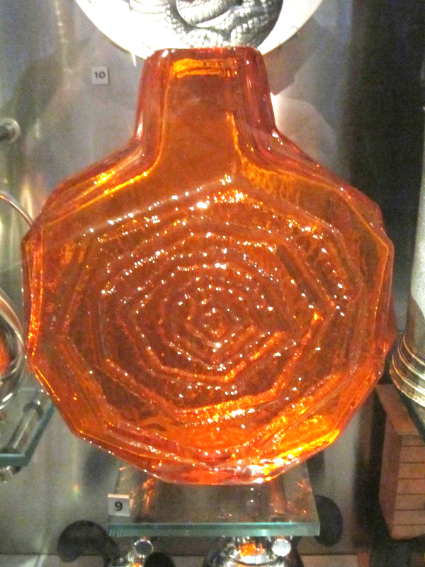 "Banjo" vase, mould-blown glass, designed by Geoffrey Baxter for James Powell & Sons (Whitefriars), Wealdstone, Middlesex, about 1967-1973. On display at the Walker Art Gallery, Liverpool, England.